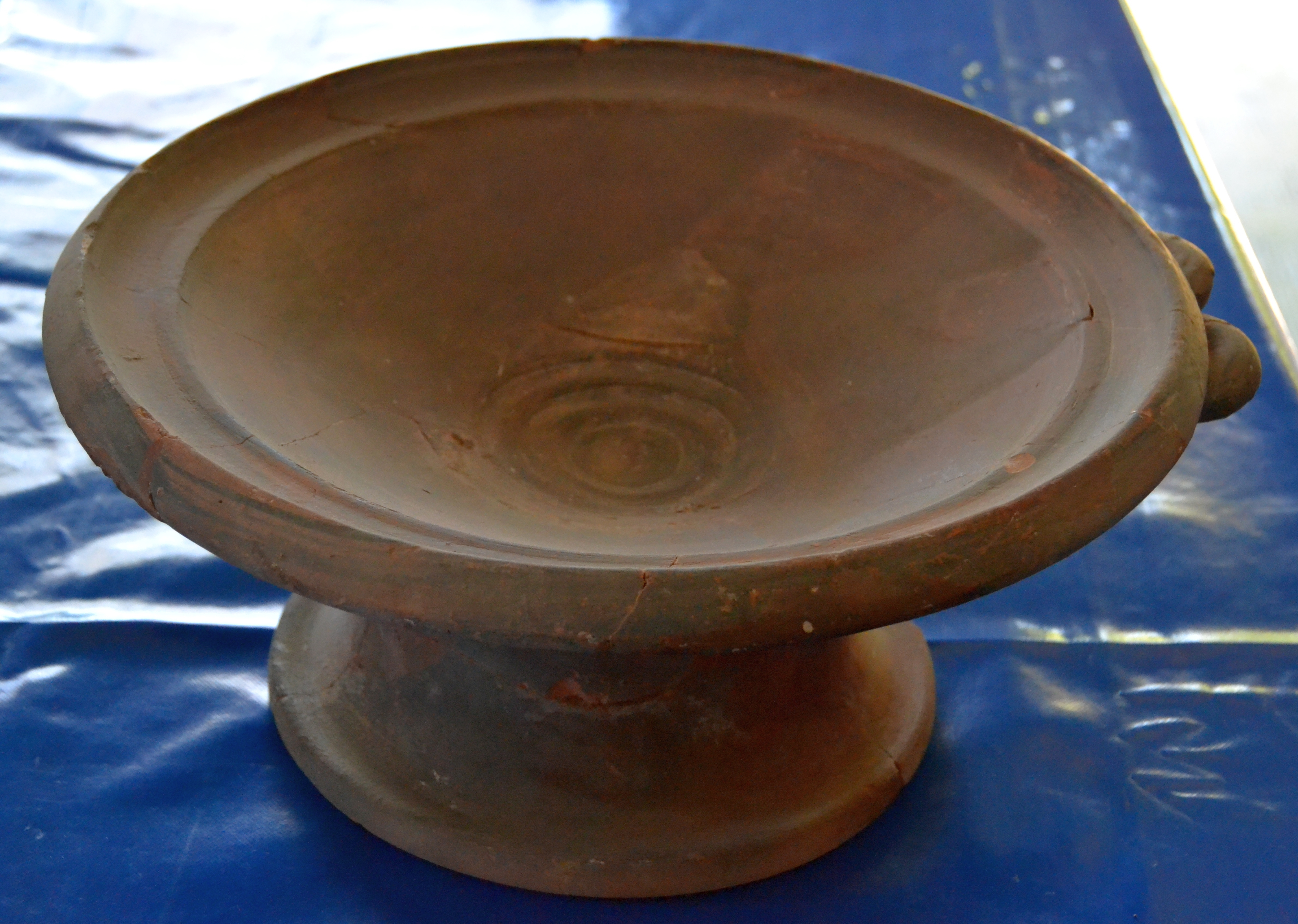 Clay Eschara found at Building Z3 at Kerameikos at Athens, As.Nr. Kerameikos 5127; ca. 375-325 BC.